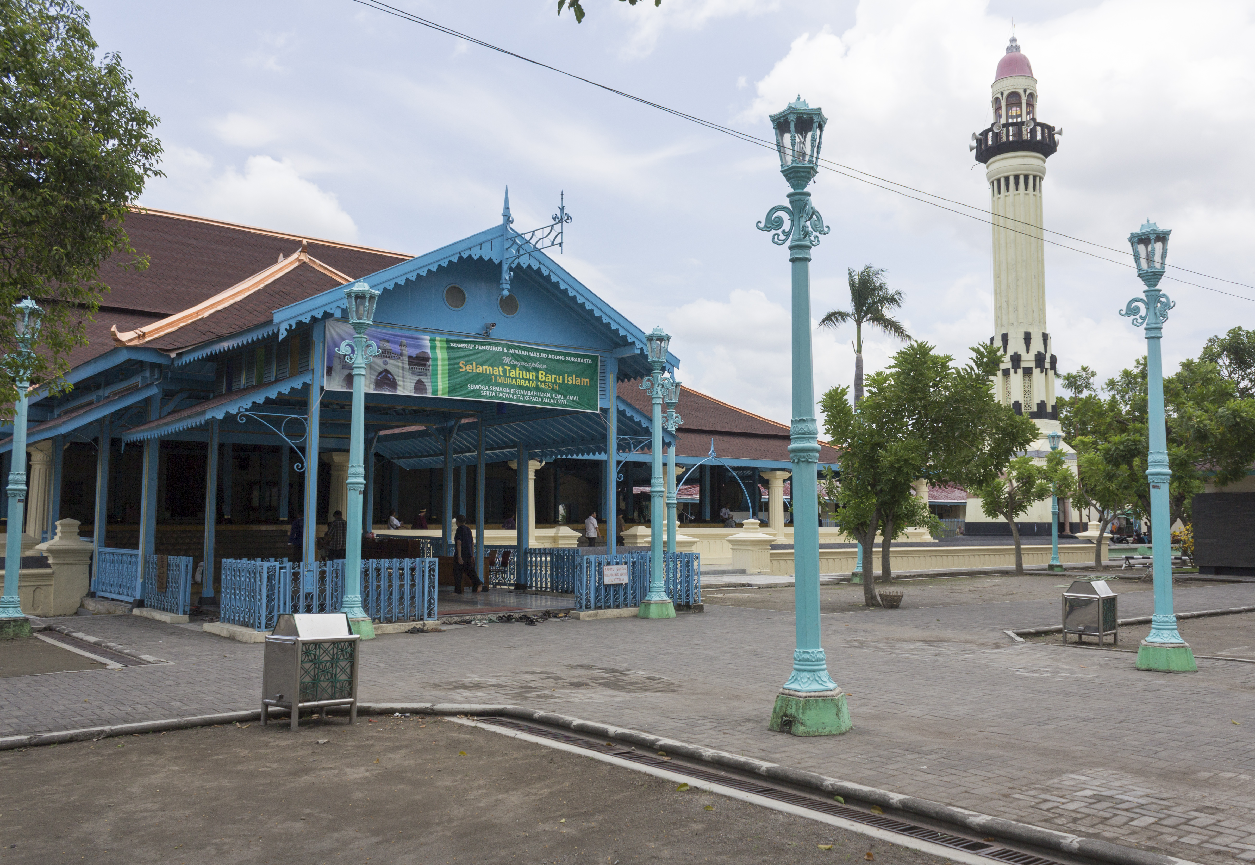 Entrance hall to Great Mosque of Solo